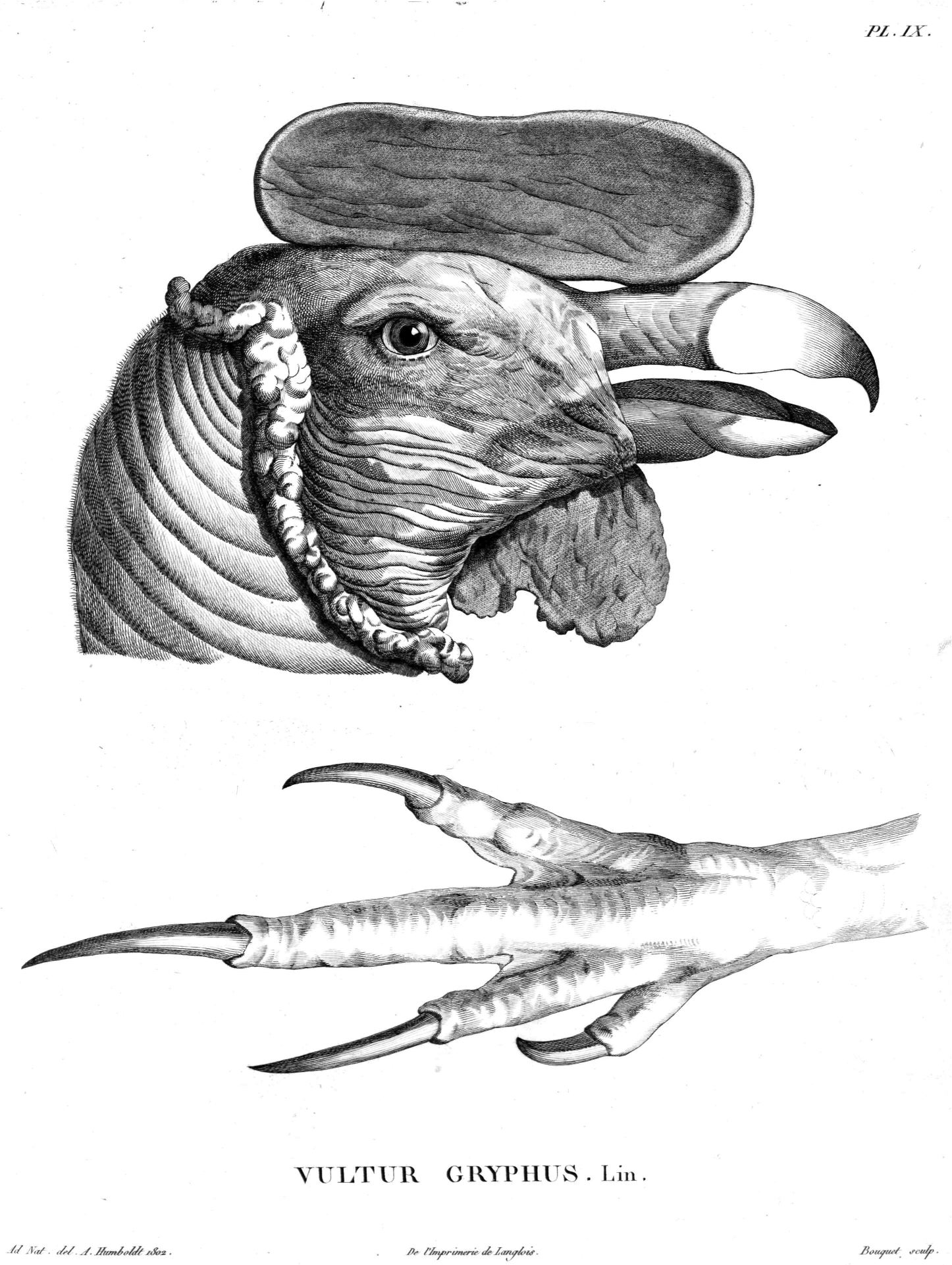 Andean condor (Vultur gryphus)